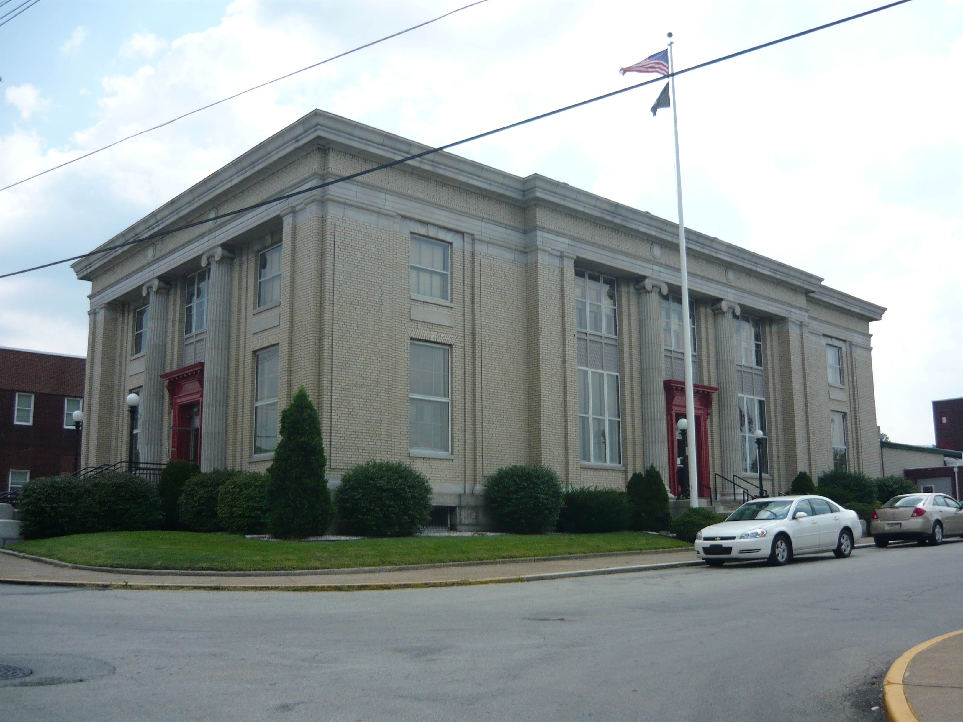 United States Post Office, 115 North Arch Street (corner of West Apple Street), Connellsville, Pennsylvania. Built 1913 in a Classical Revival style. Architect: James Knox Taylor.